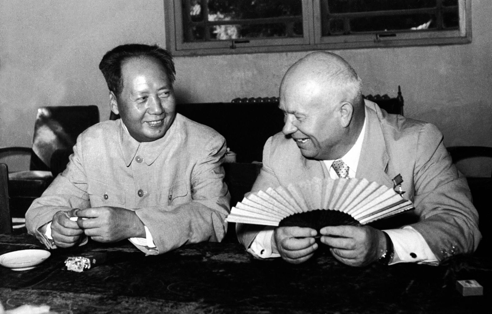 Mao Tse-tung, half-length portrait, seated, facing Nikita Khrushchev, during the Russian leader's 1958 visit to Peking